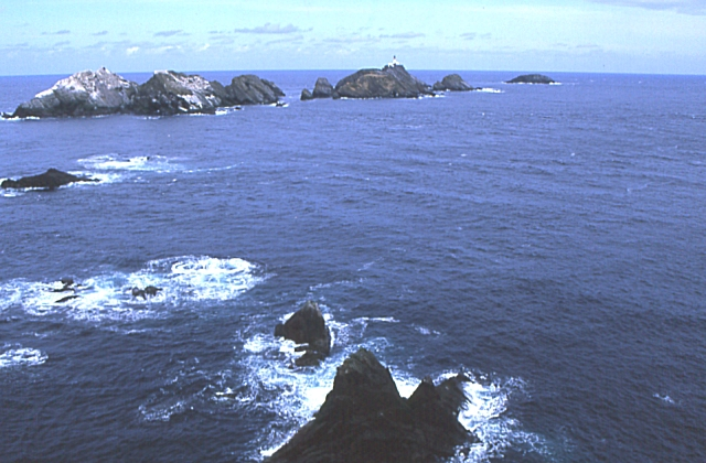 Baa Skerries Even on a calm day, there's a lot of white water around these rocks.